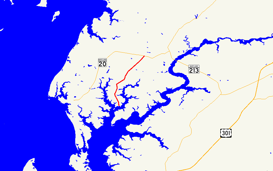 Map of Maryland Route 446